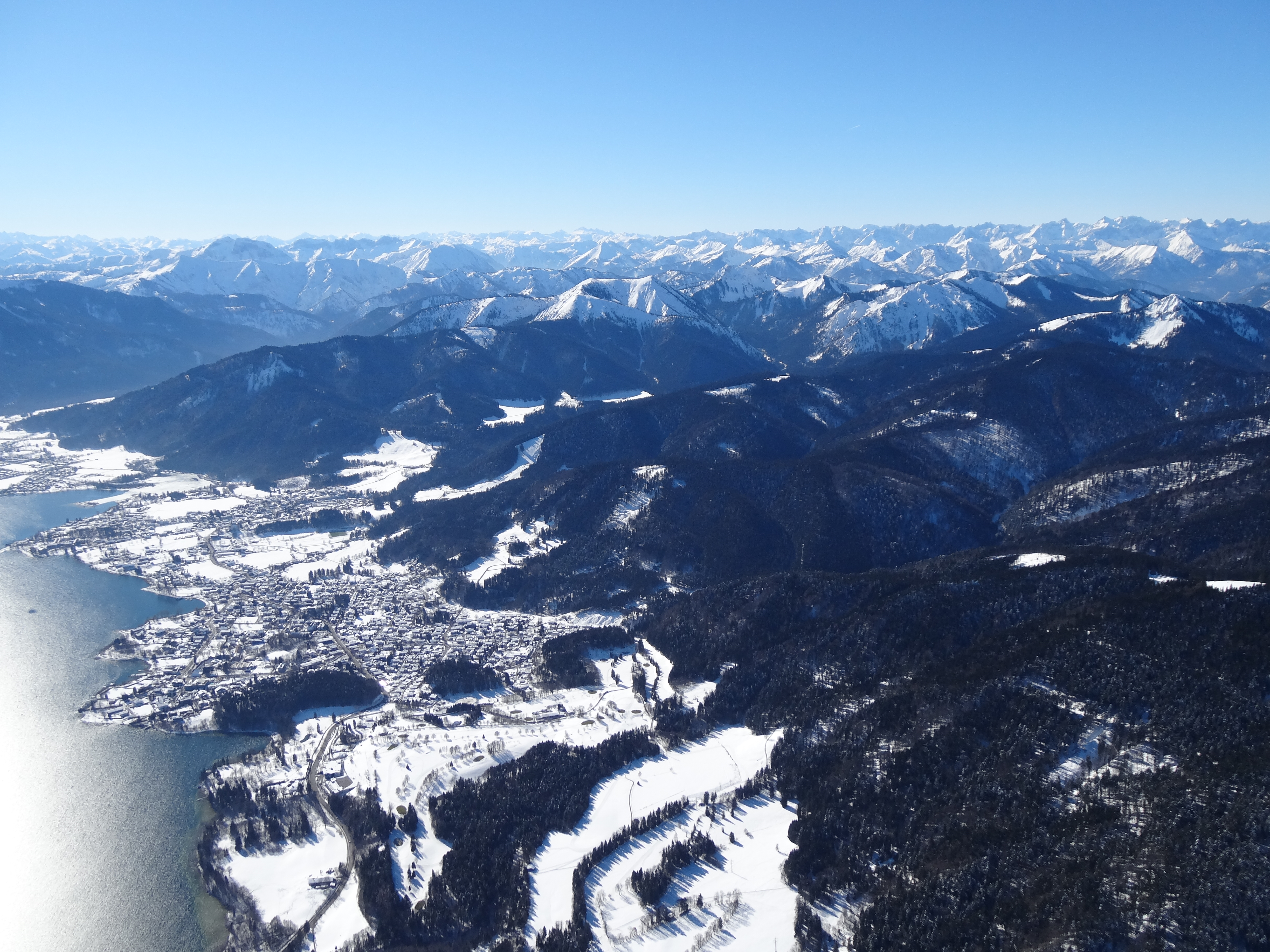 Flyschberge in Bad Wiessee, Habitat 8236-371 in the district of Miesbach in Upper Bavaria. Luzula-Beechwood and fir rich mixed alpine forests and Kar-fen formations at the edge of the Mangfall mountains. The photo was taken during a balloon flight in about 1940 meters.